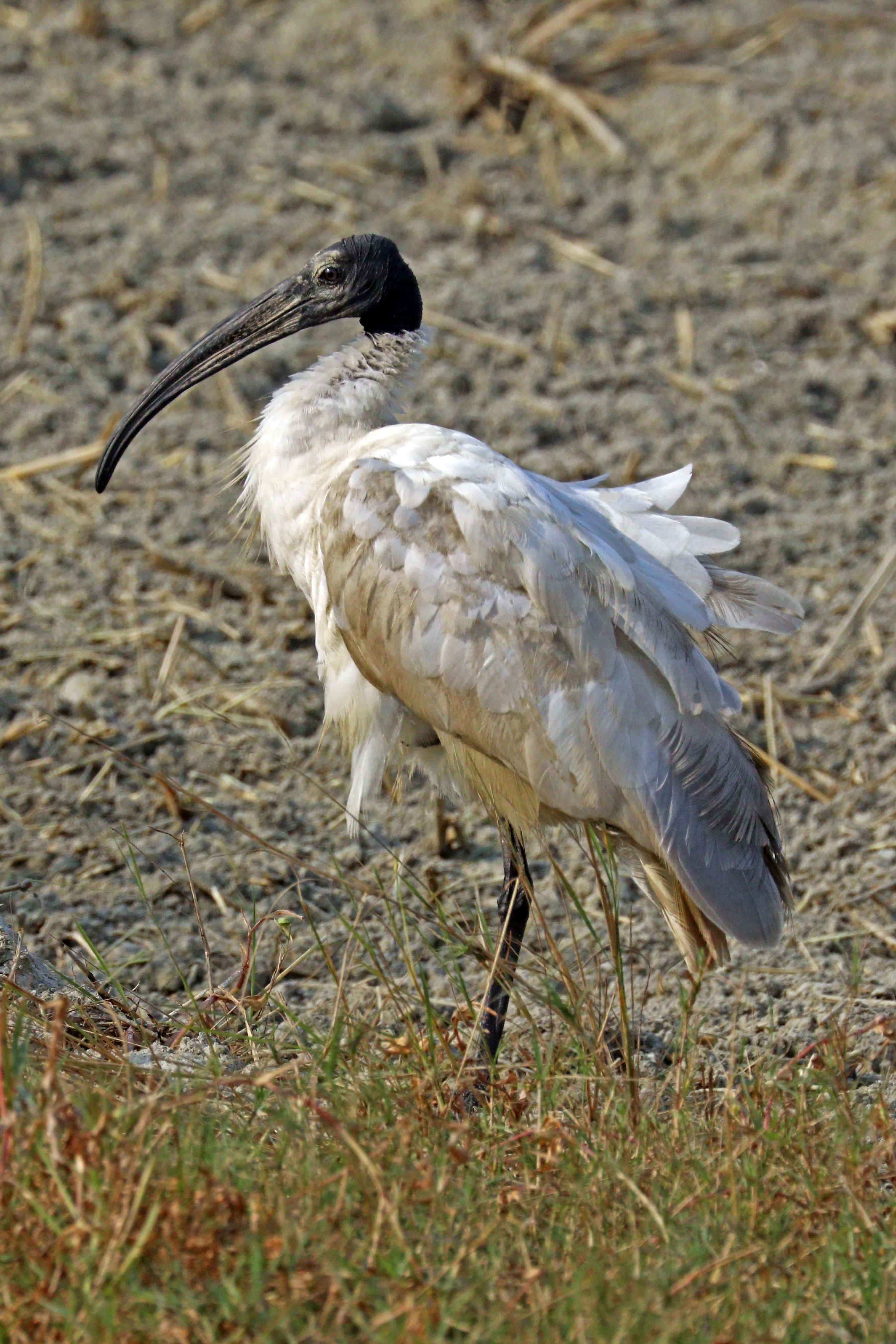 Black-headed (or white) ibis (Threskiornis melanocephalus), Salai, UP, India